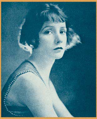 Publicity photo of Natalie Talmadge from Who's Who on the Screen